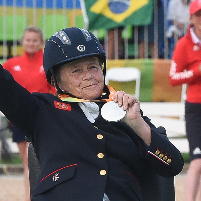 1-Rio de Janeiro - Anne Dunham, Sophie Christiansen - Brazilian Sergio Oliva Paralympics Rio 2016 (Tomaz Silva/Agência Brasil)